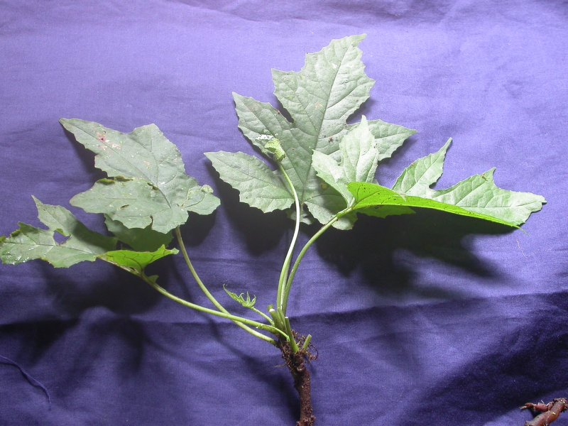 Dorstenia contrajerva with lobed leaves and flower